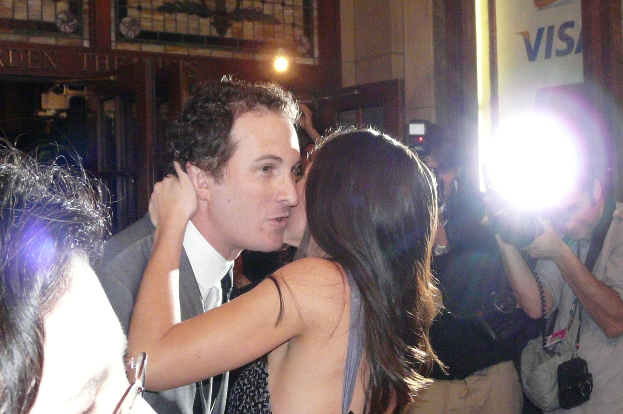 Darren Aronofsky getting a smooch from Marisa Tomei in front of the Elgin Theatre at the tiff premiere of The Wrestler Check out even more great Tiff Photos and Videos at